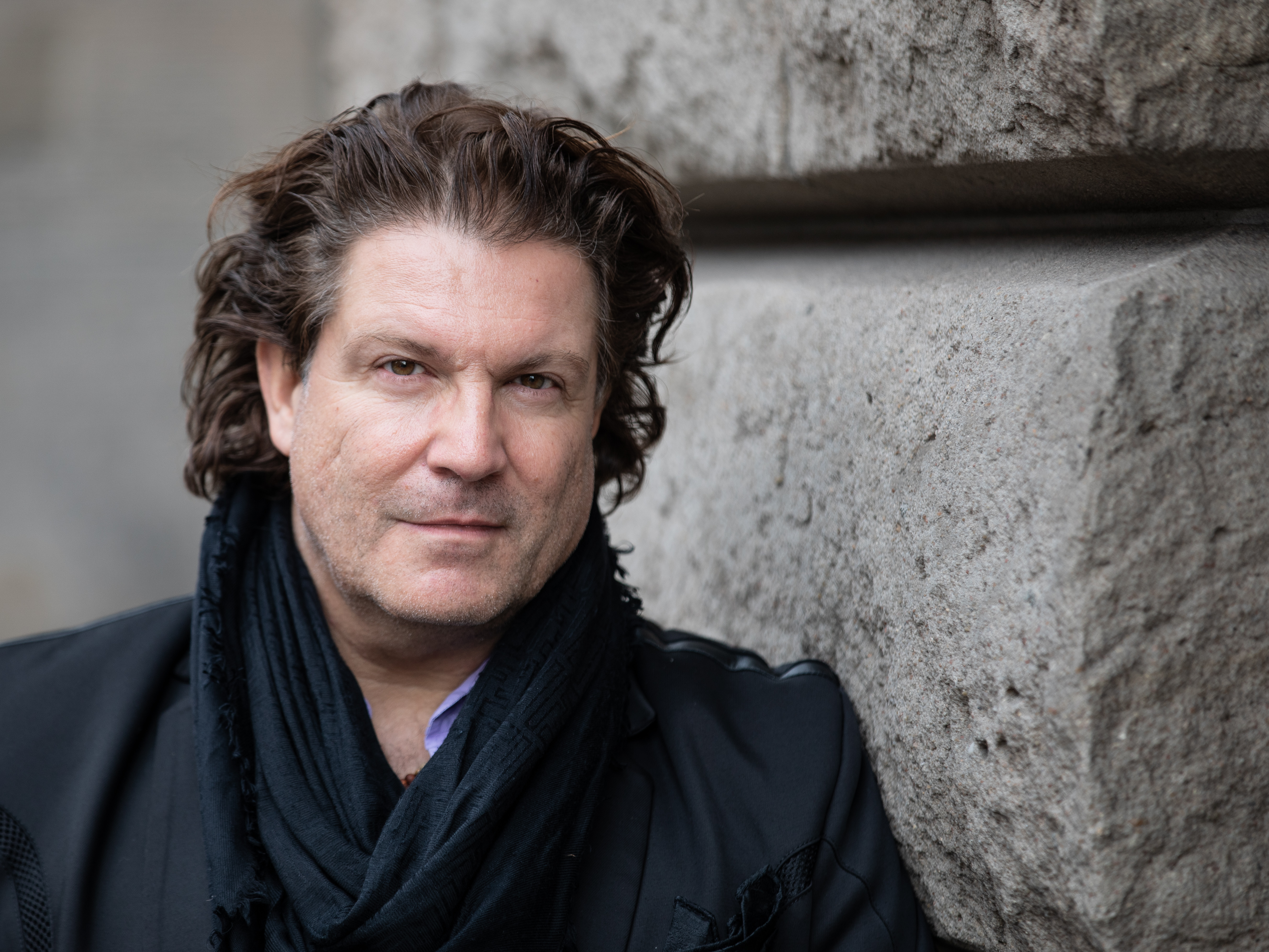 Francis Fulton-Smithl at the reception of the Bavarian state government at the Berlinale 2020